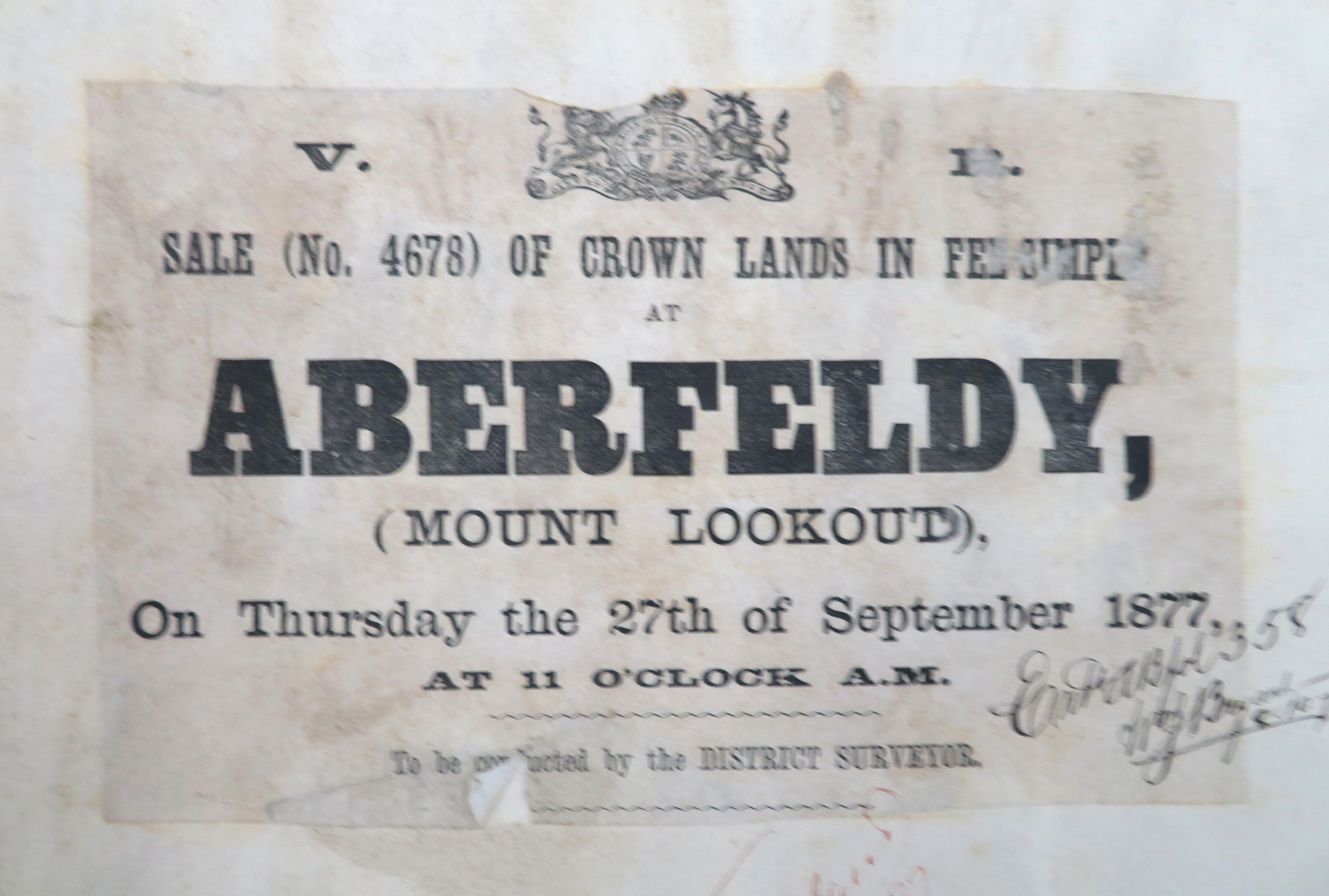 Aberfeldy Land Sale 1877 - courtesy State Library Victoria